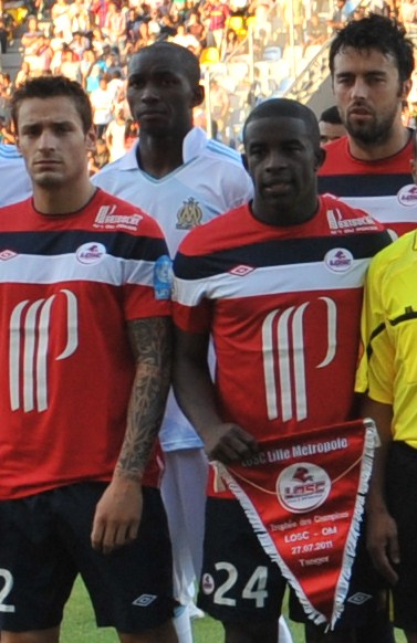 The left to the right : Mathieu Debuchy, Stéphane Mbia, Rio Mavuba and Marko Baša playing 2011 Trophée des champions.